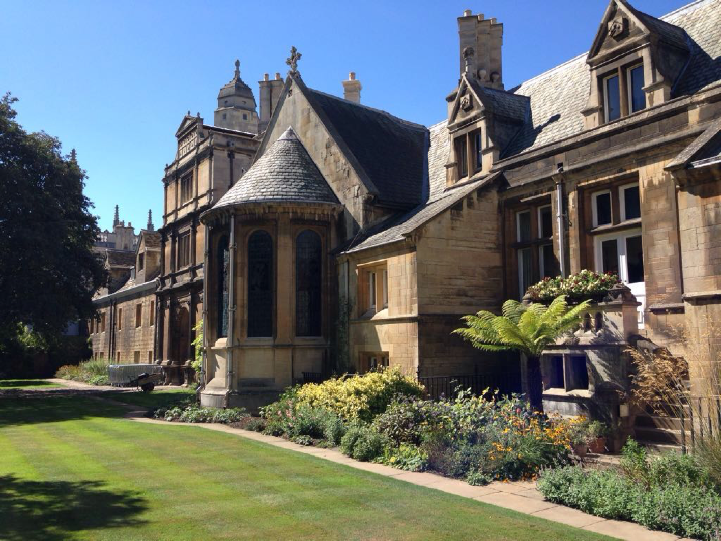 University of Cambridge, Gonville and Caius Tree Court, Cambridge